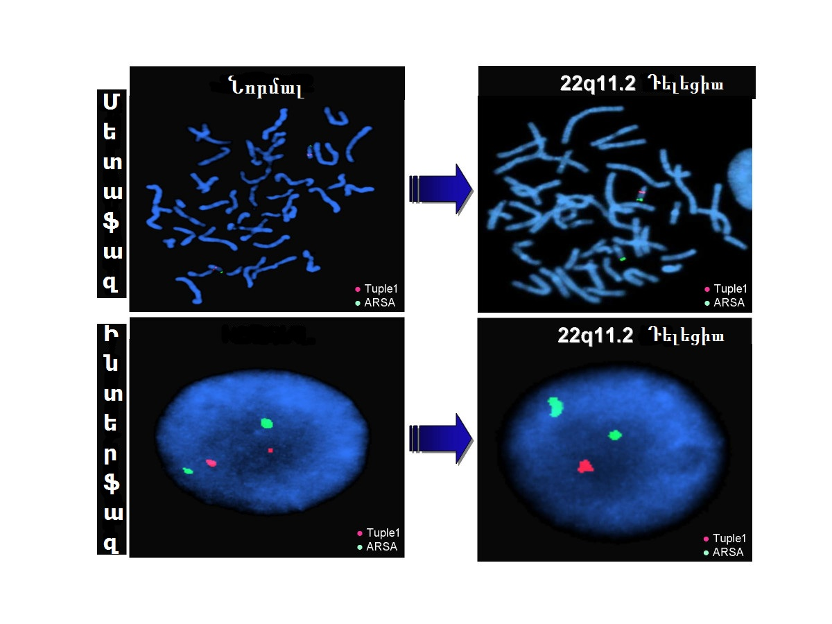 Figure 2. Result of FISH analysis using LSI probe (TUPLE 1) from DiGeorge/velocardiofacial syndrome critical region. TUPLE 1 (HIRA) probe was labeled in Spectrum Orange and Arylsulfatase A (ARSA) in SpectrumGreen as control. Absence of the orange signal indicates deletion of the TUPLE 1 locus at 22q11.2. Tonelli et al. Journal of Medical Case Reports 2007 1:167